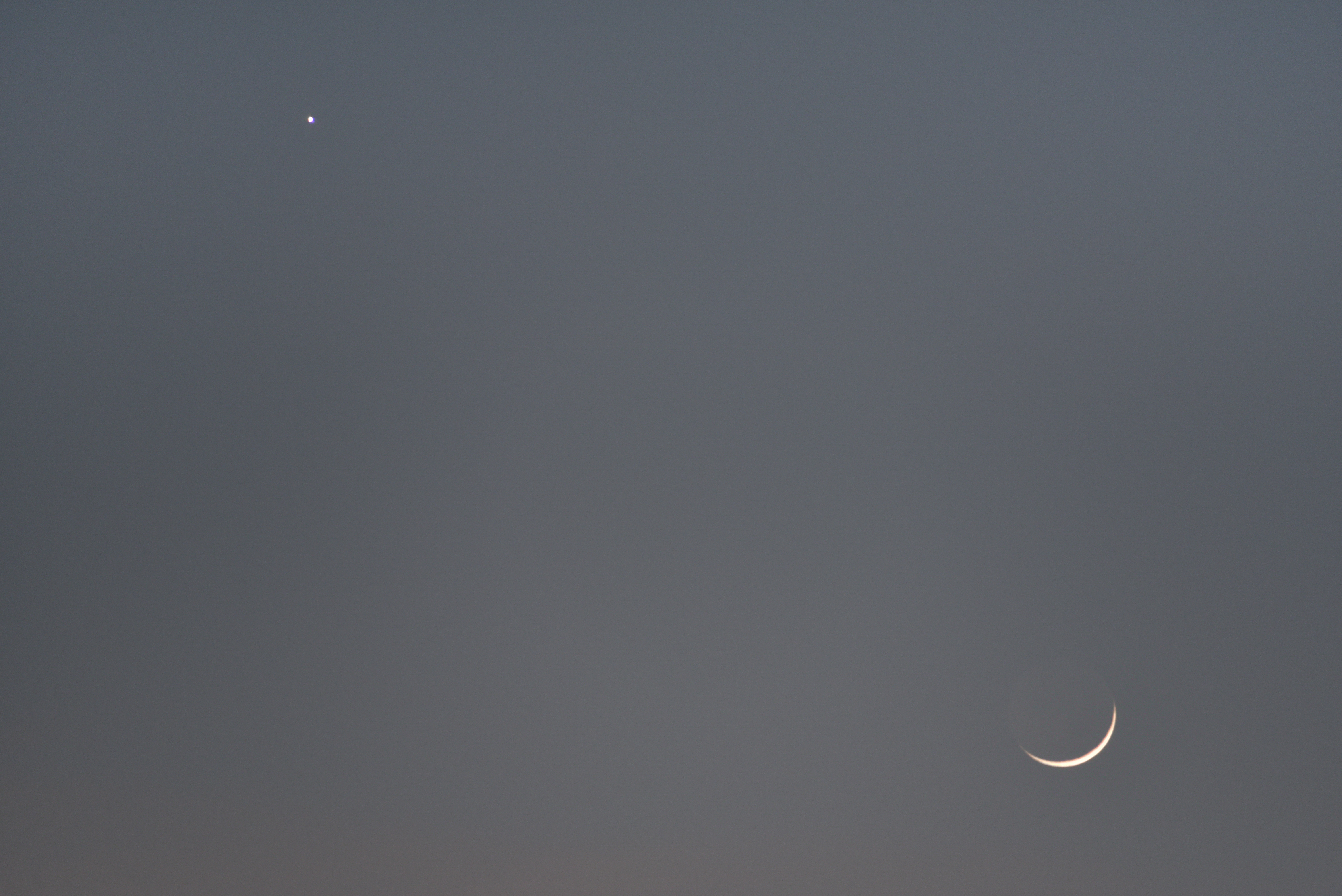 Waxing crescent moon and evening star